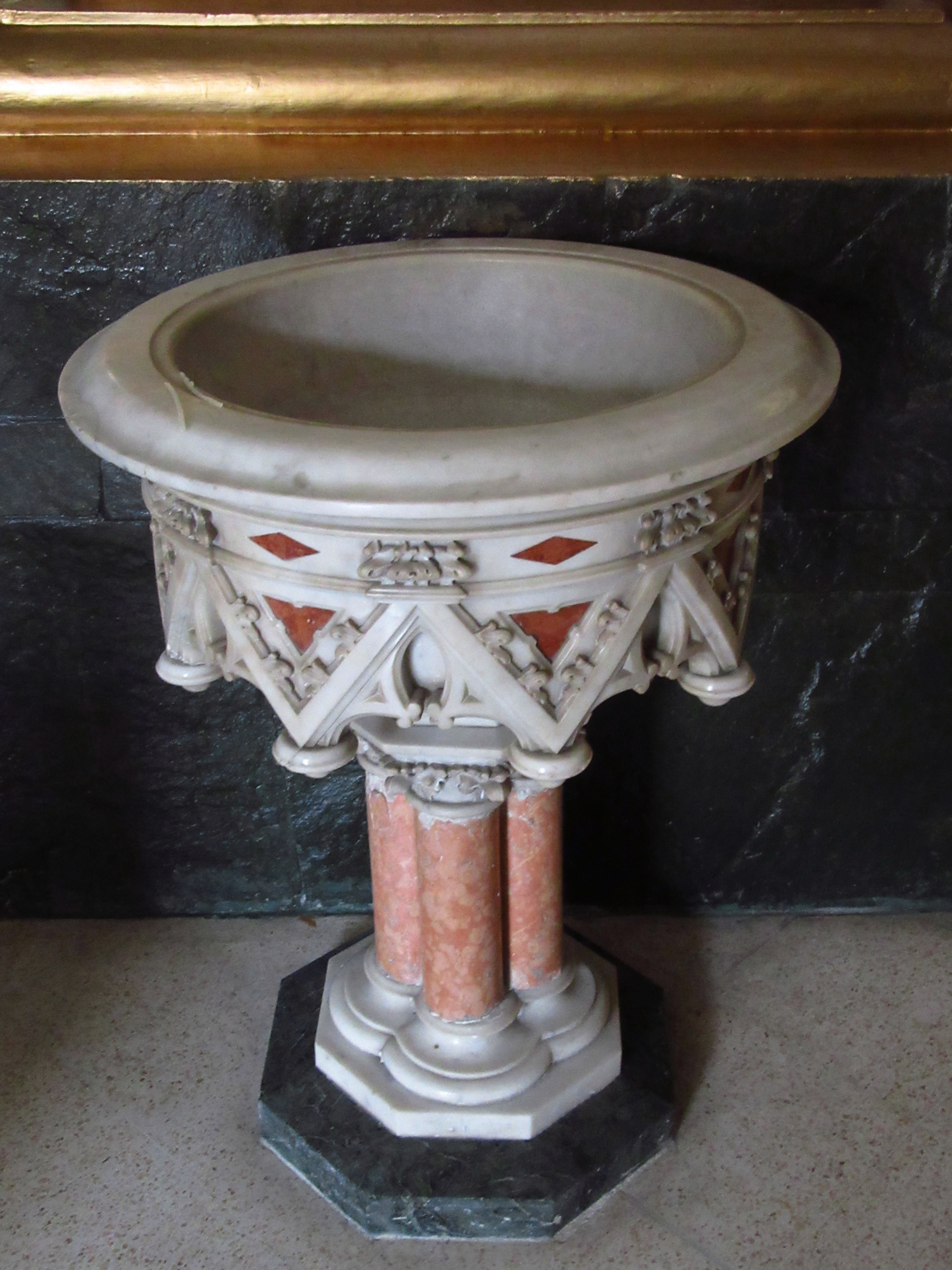 Medellín